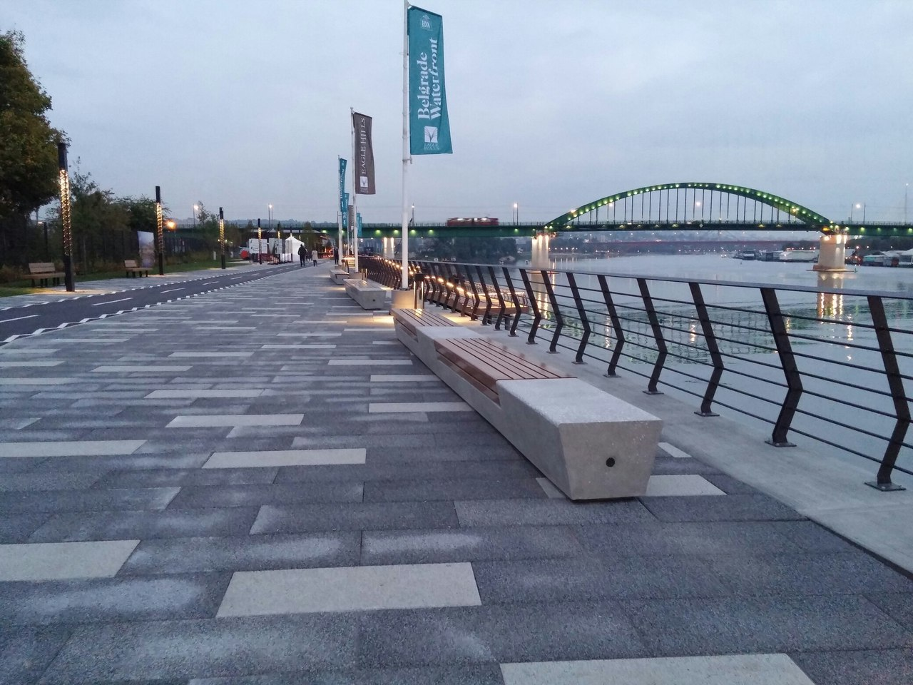 SavaMala